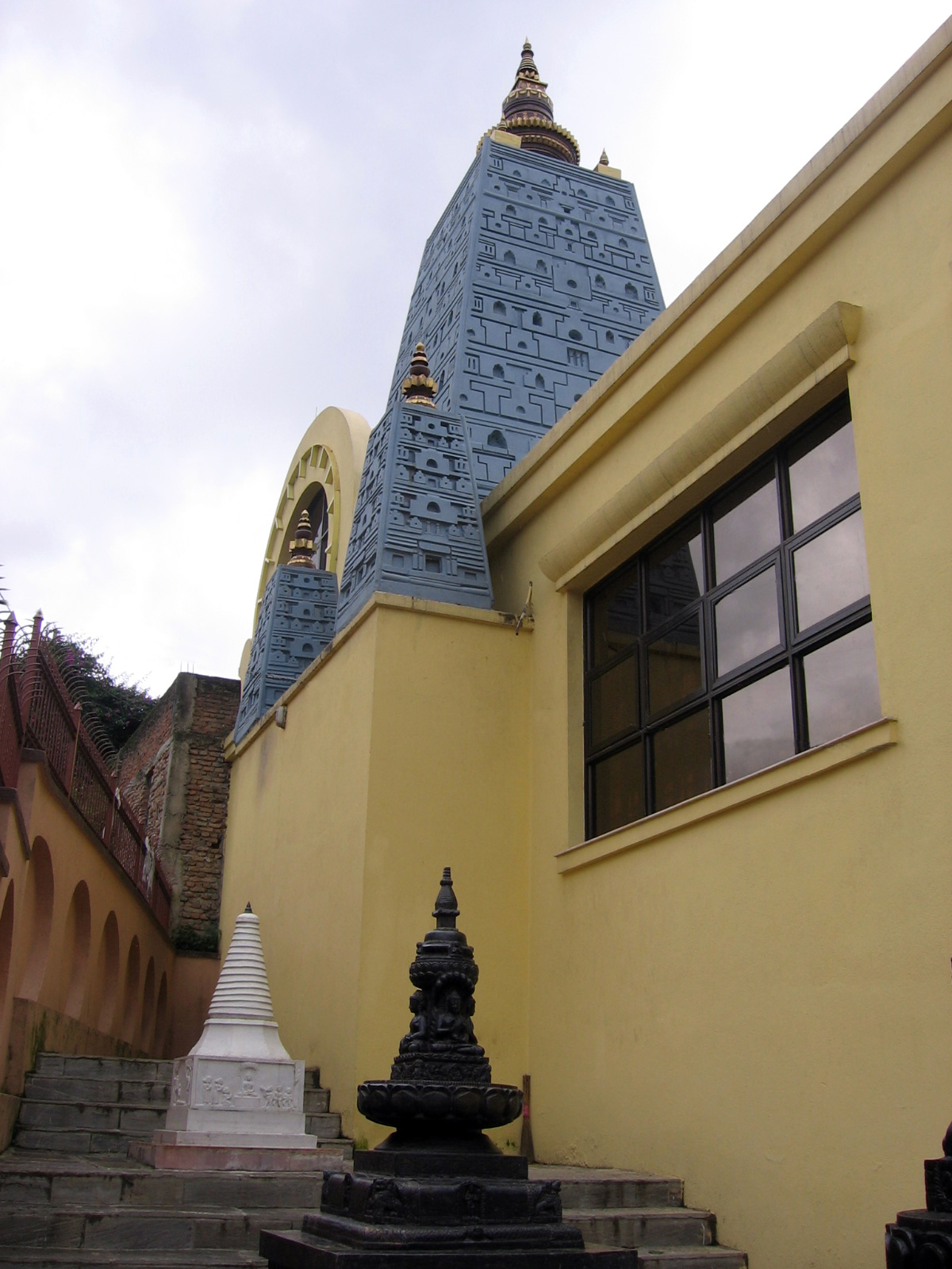 Nirvana Murti Vihara, a Theravada Buddhist monastery, in Kathmandu.